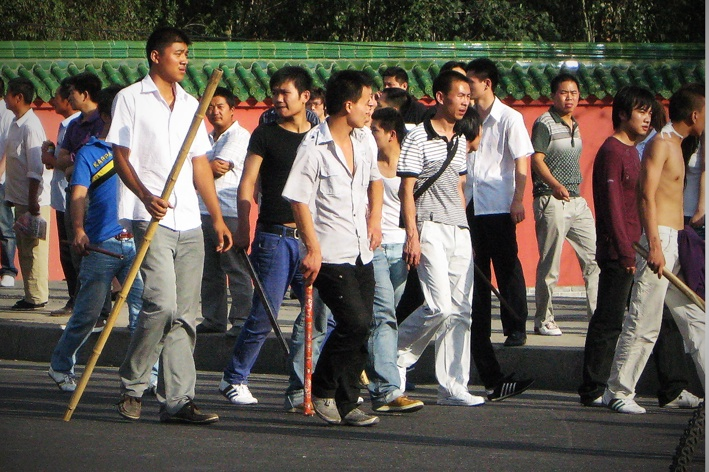 Urumqi, July 2009, Riots.